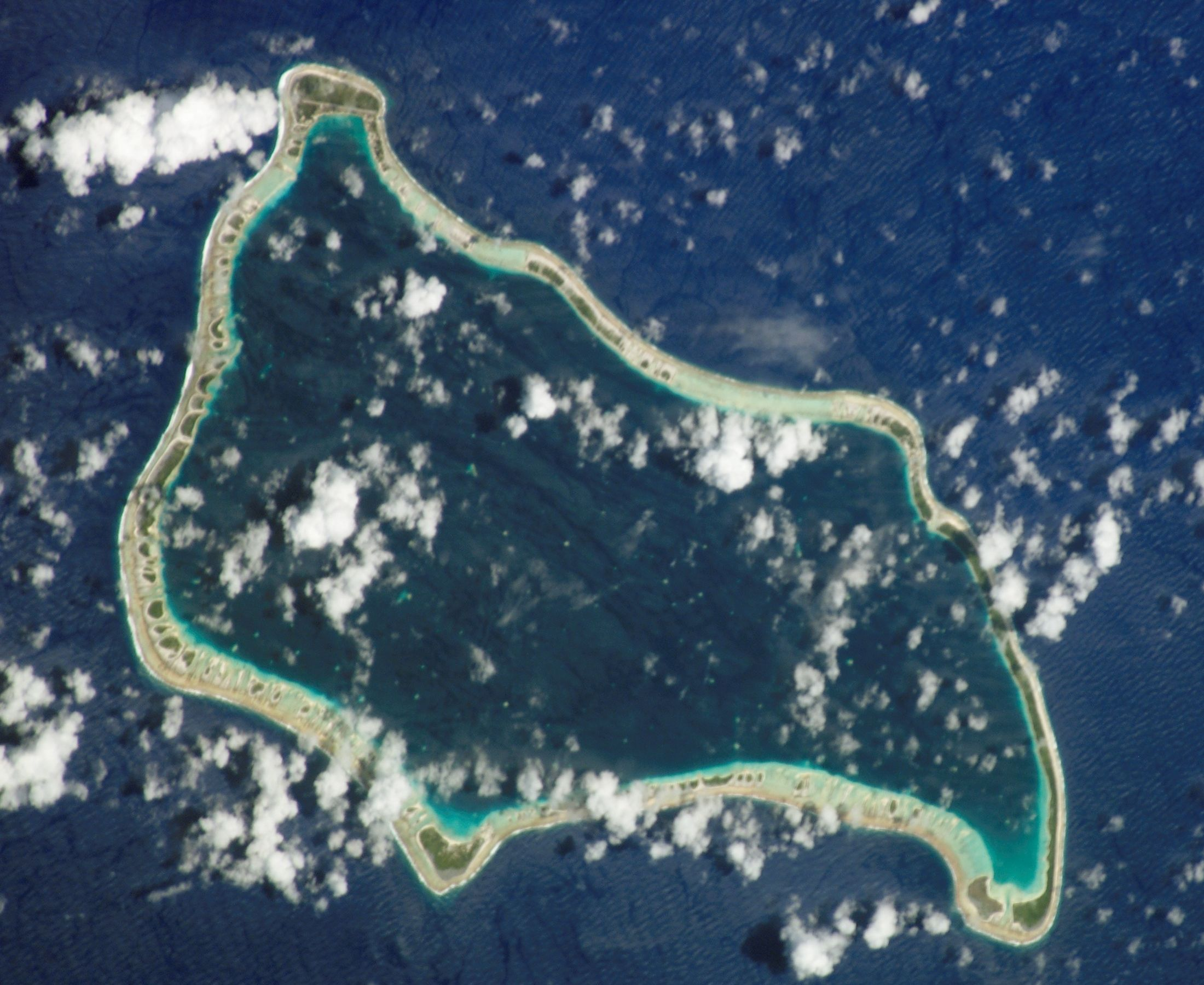 NASA astronaut image of Marutea Sud Atoll (Tuamotu Archipelago, French Polynesia) in the Pacific Ocean